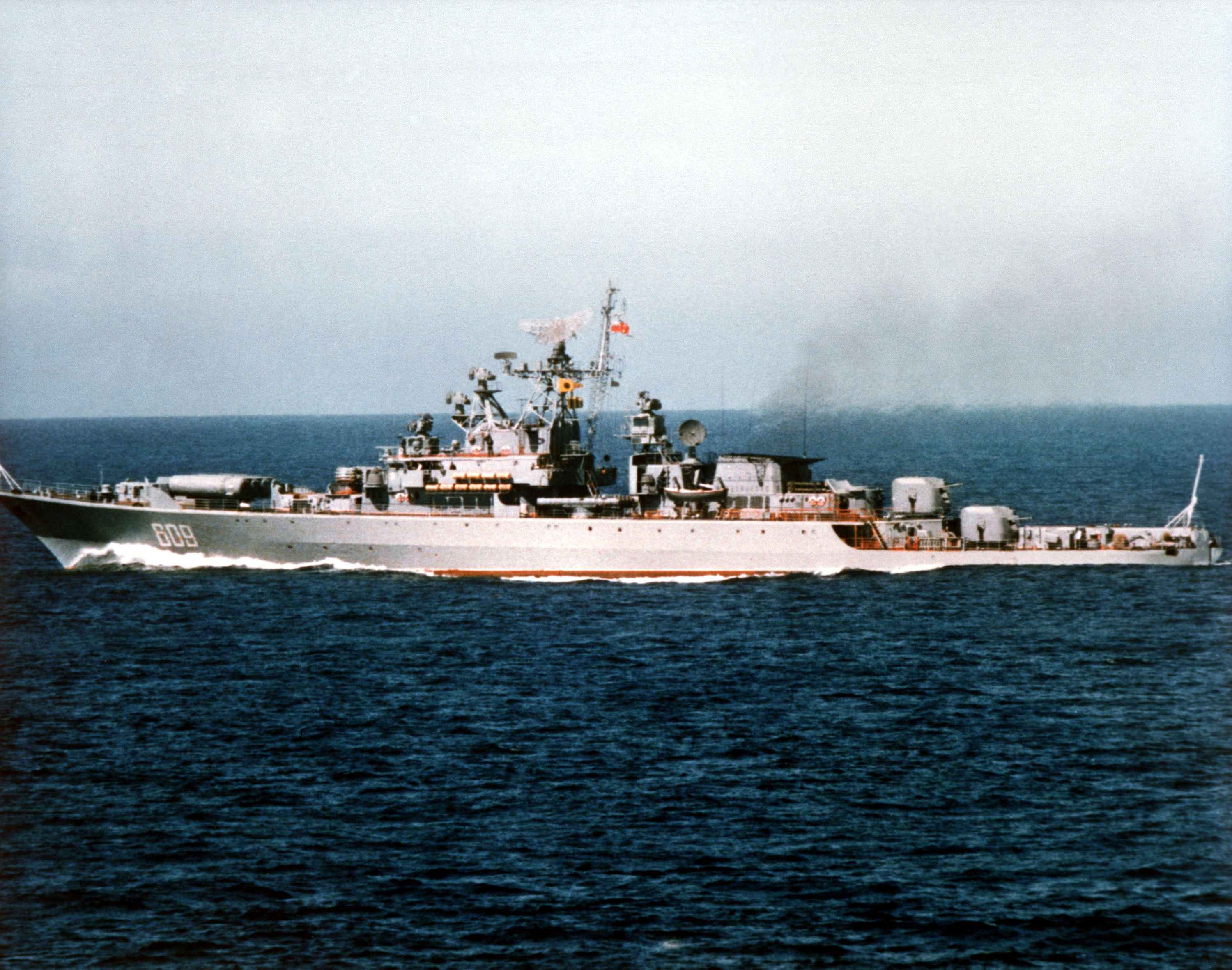 A port bow view of the Soviet Krivak I-class guided missile frigate Retivy underway.